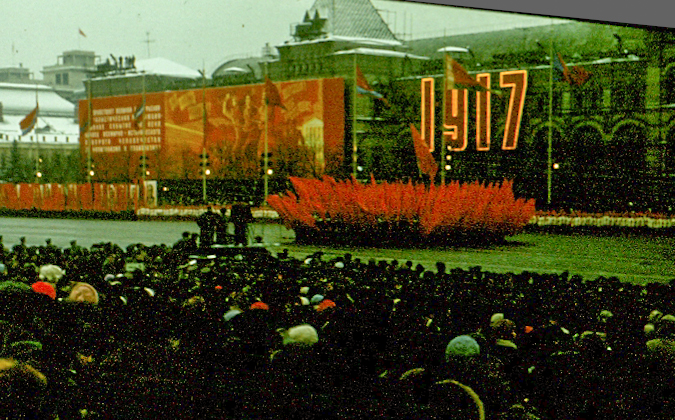 Official demonstration on 7 November 1977 on the Red Square in Moscow